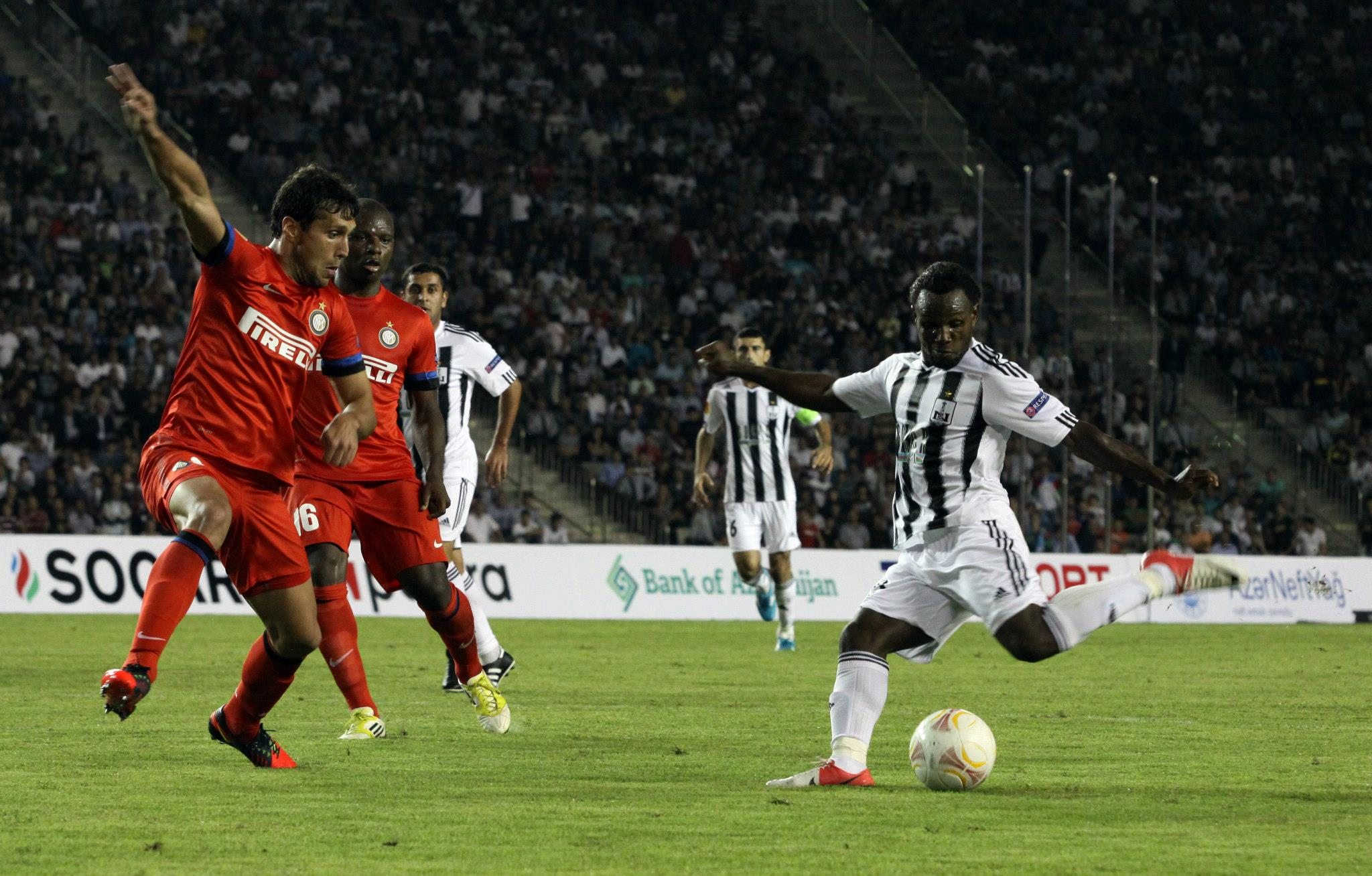 UEFA Europa League 2012-10-04 Neftchi Baku-FC Internazionale Milano.